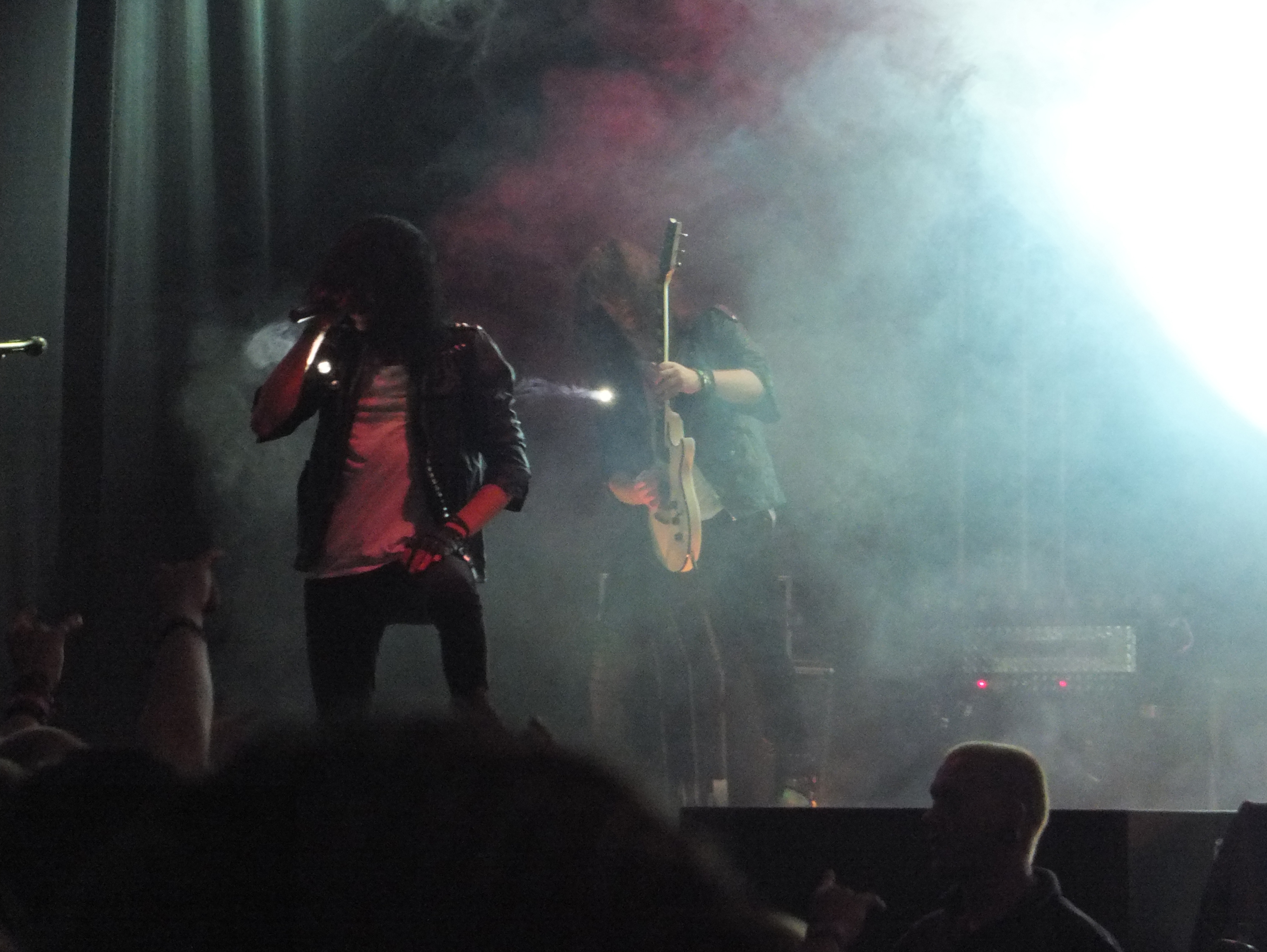 We Butter the Bread with Butter at Wacken Open Air 2012